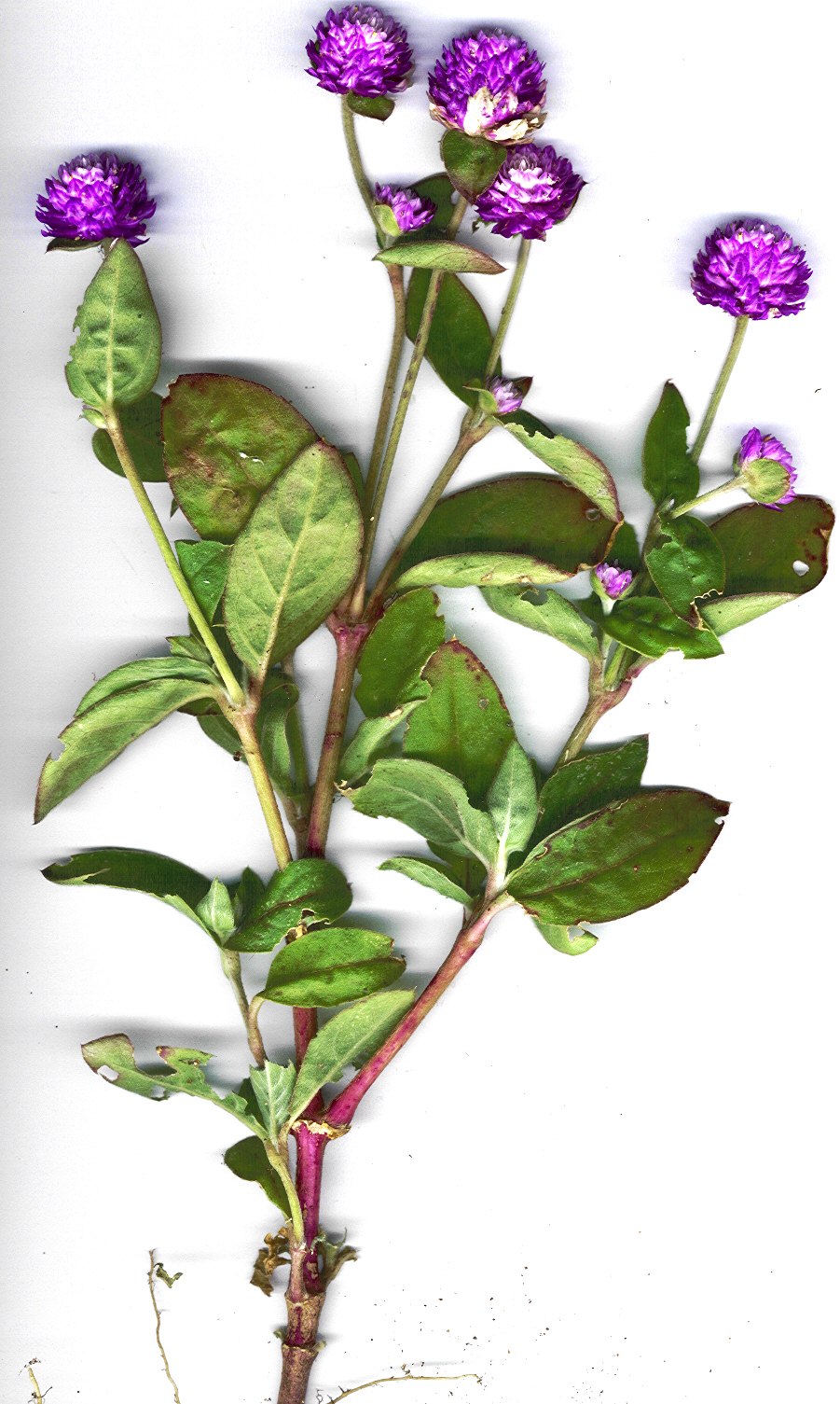 Gomphrena globosa (plant). Location: Maui, Kanaha Beach